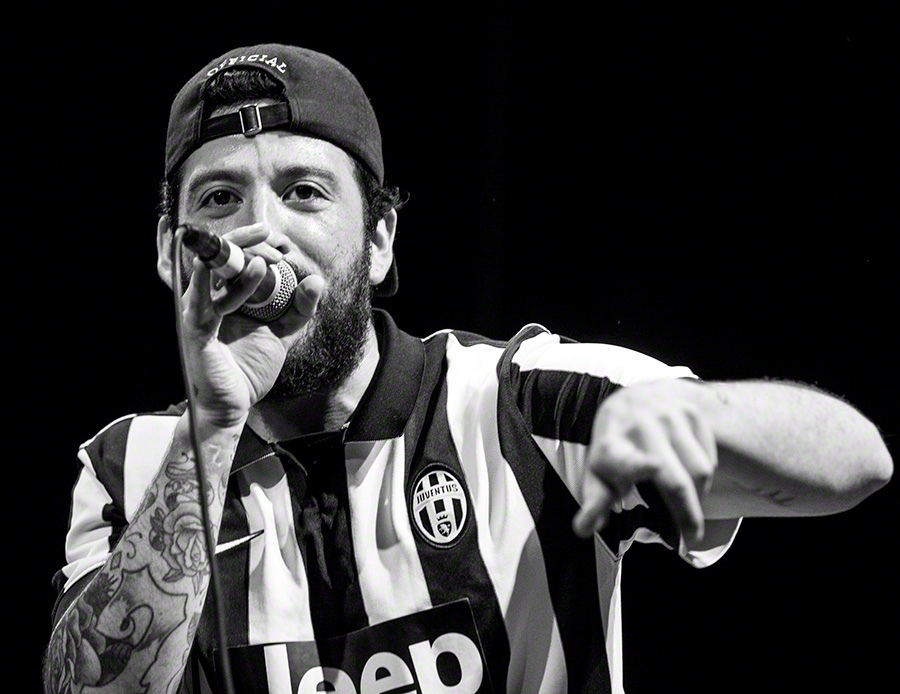 Felipe «Fela» Orellana performs with Organ Club at the main stage of Cosmopolite. The concert took place on 21.09.2016 in Oslo. The Organ Club - a Jam session with Wesseltoft&Mena and friends.Lineup:Bugge Wesseltoft (organ)Charles Mena (drums)Aissa Tobi (percussion)Felipe «Fela» Orellana (vocal)Beatur (vocal)Sankung Jobarteh (guitar / vocal)Unidentified (bass)